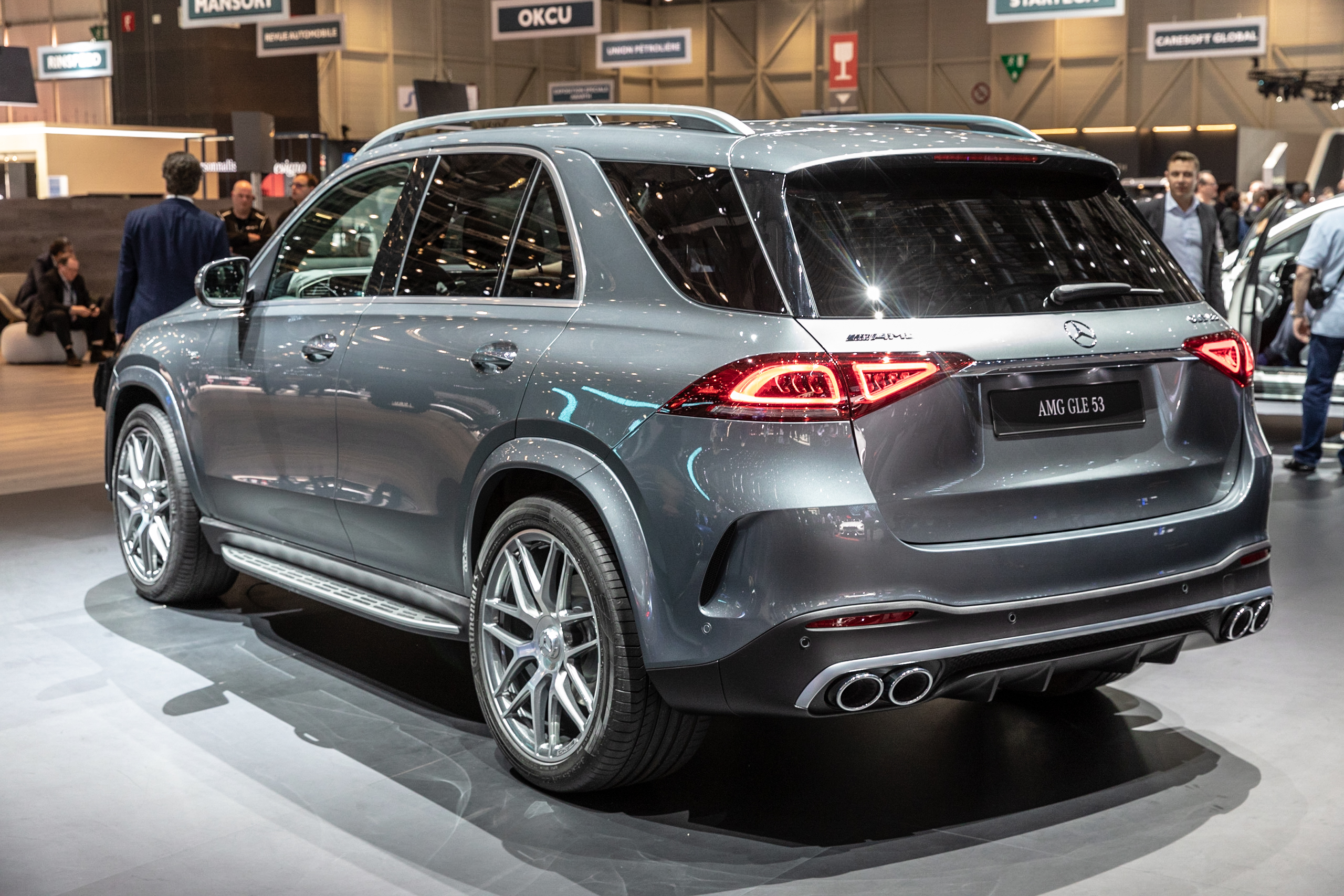 Geneva International Motor Show 2019, Le Grand-Saconnex